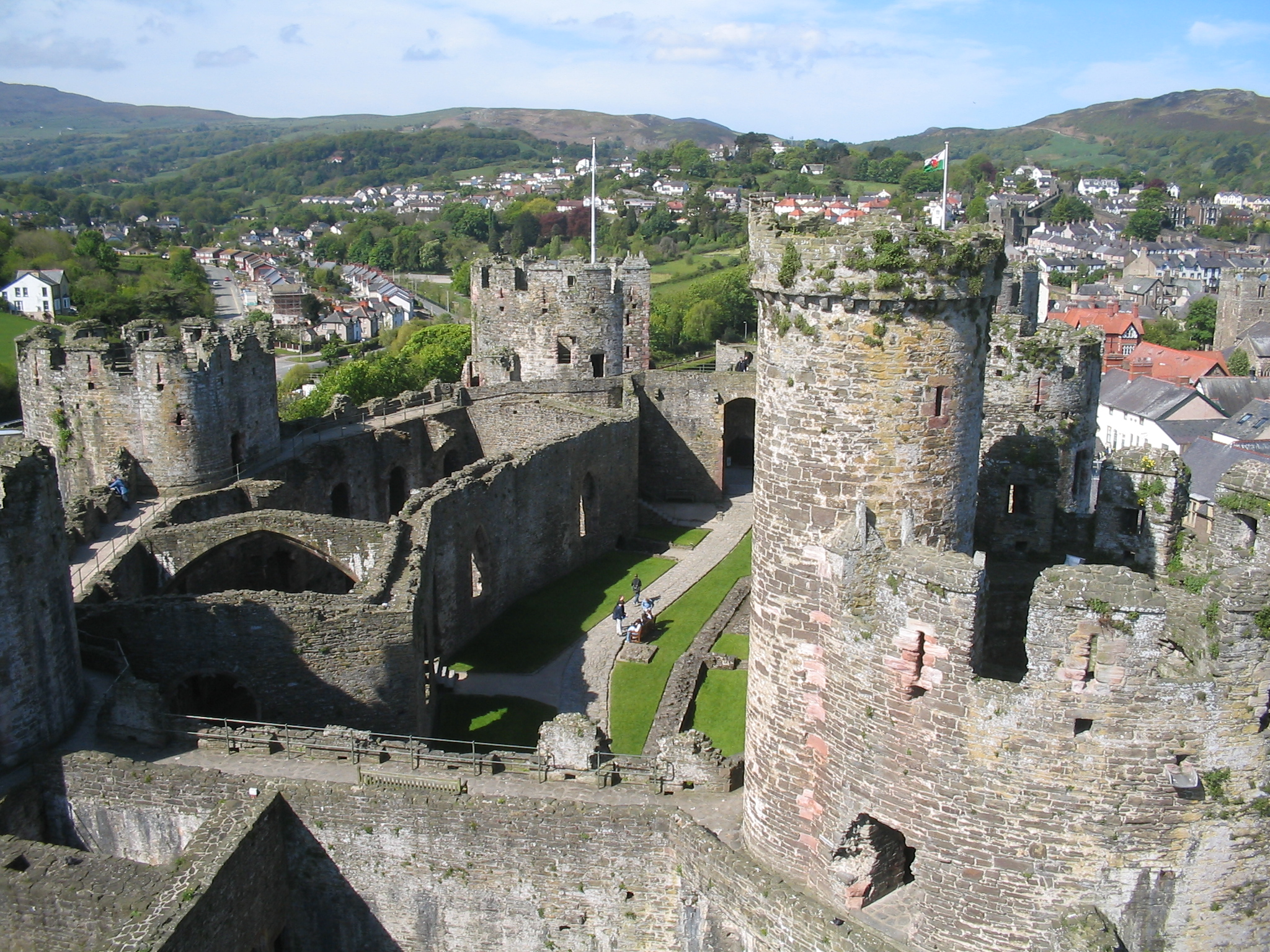 A view of Conwy Castle from one of the towers. David Benbennick took this photo on May 14, 2005 at 10:23 AM (9:23 UTC).